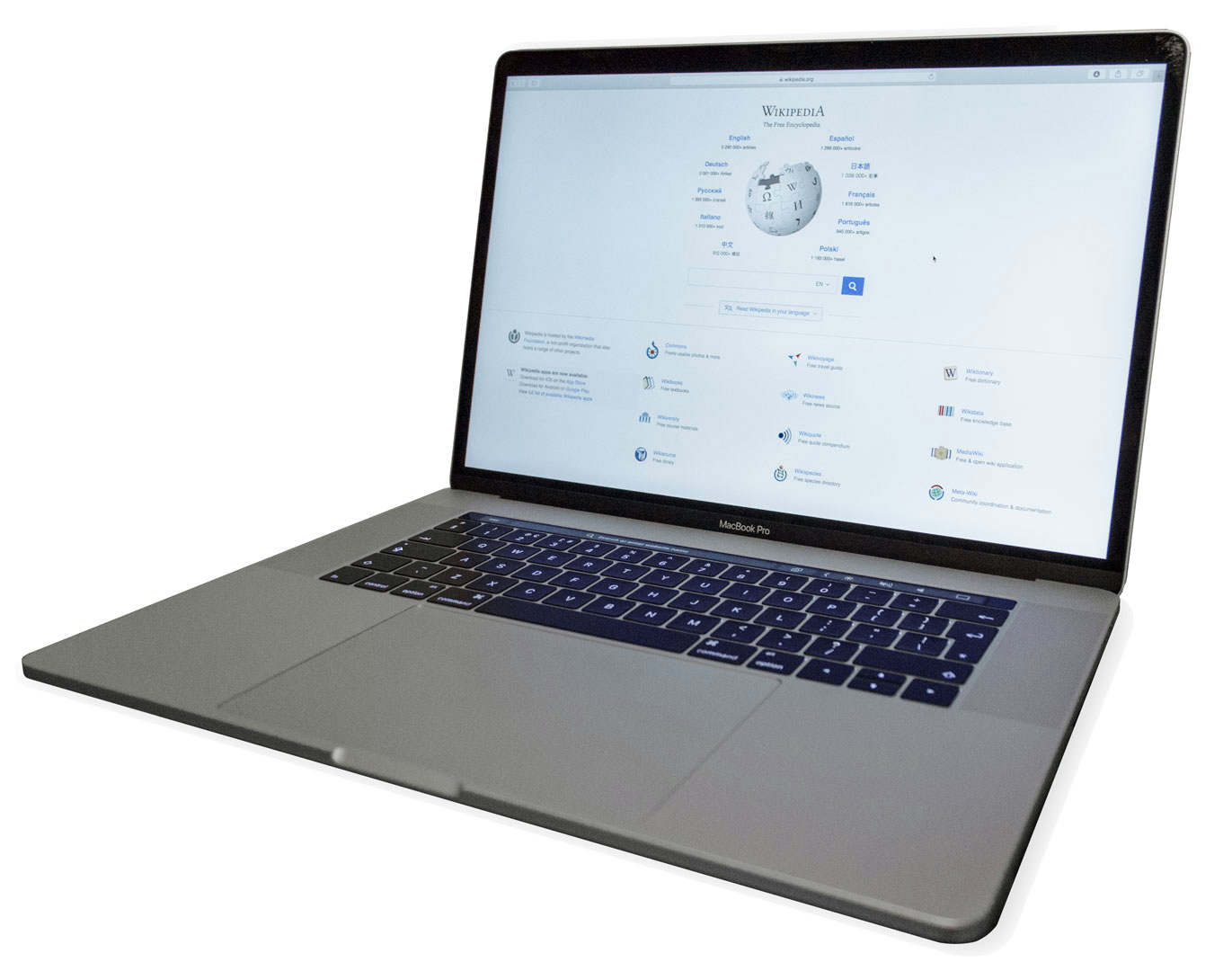 Late 2016 15-inch MacBook Pro with Touch Bar (model A1701) showing Wikipedia landing page.